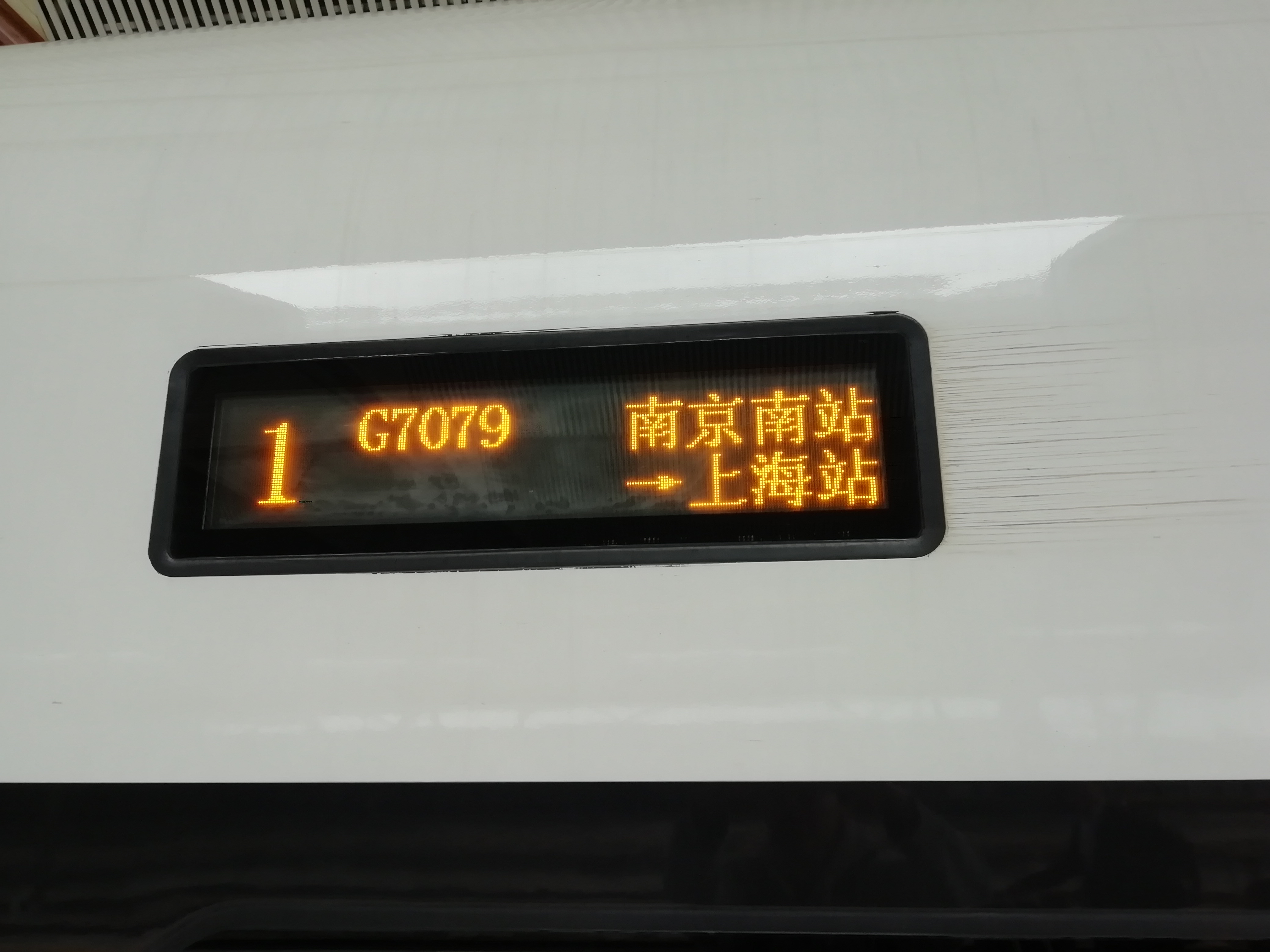 G7079 information board. This train is departing from Anqing, but the display shows this train is departing from Nanjing South for train number adjusting. 中文（中国大陆）: G7079列车的电子显示屏。该列车虽为安庆站始发，但由于列车车次调整等原因，该列车电子显示屏显示的始发站为南京南站。